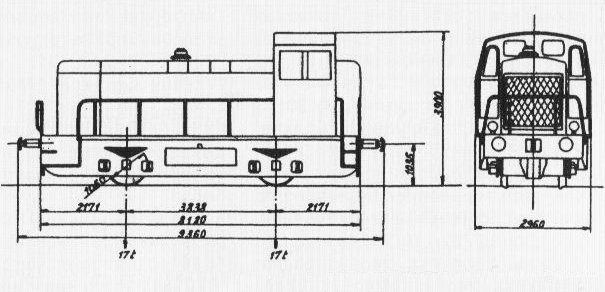 Drawing of SNCF Y 51100 switcher